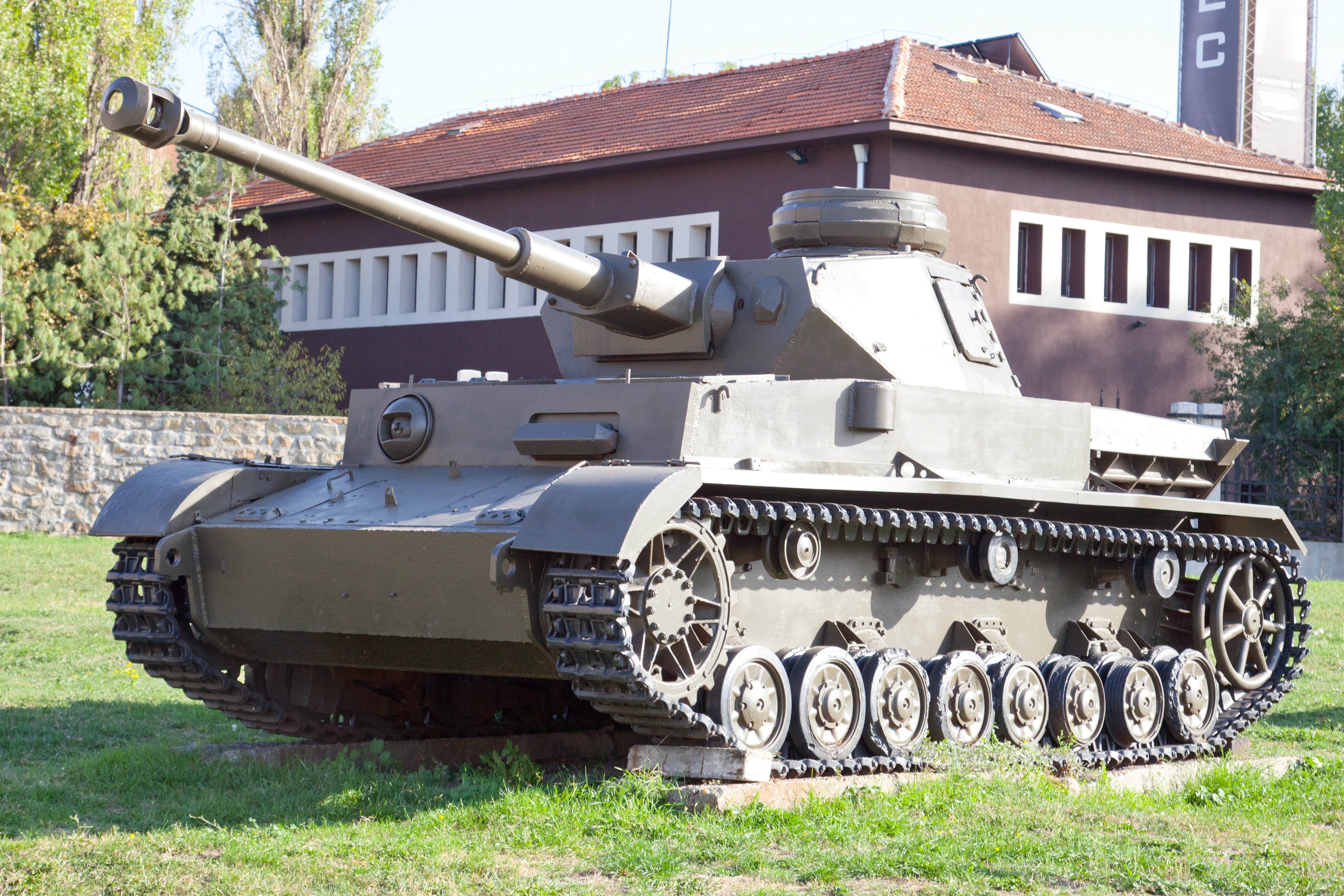 National Museum of Military History (Bulgaria)